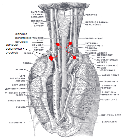 периартериални жлези Unless stated otherwise, this image is from the 20th U.S. edition of Gray's Anatomy of the Human Body, originally published in 1918 and therefore lapsed into the public domain. A copy of Gray's Anatomy can be found on Bartleby and also on Yahoo!. This image is in the public domain because it is a mere mechanical scan or photocopy of a public domain original, or – from the available evidence – is so similar to such a scan or photocopy that no copyright protection can be expected to arise. The original itself is in the public domain for the following reason: This work is in the public domain in its country of origin and other countries and areas where the copyright term is the author's life plus 100 years or less. This work is in the public domain in the United States because it was published (or registered with the U.S. Copyright Office) before January 1, 1923. This file has been identified as being free of known restrictions under copyright law, including all related and neighboring rights. This tag is designed for use where there may be a need to assert that any enhancements (eg brightness, contrast, colour-matching, sharpening) are in themselves insufficiently creative to generate a new copyright. It can be used where it is unknown whether any enhancements have been made, as well as when the enhancements are clear but insufficient. For known raw unenhanced scans you can use an appropriate PD-old tag instead. For usage, see Commons:When to use the PD-scan tag. Note: This tag applies to scans and photocopies only. For photographs of public domain originals taken from afar, PD-Art may be applicable. See Commons:When to use the PD-Art tag.